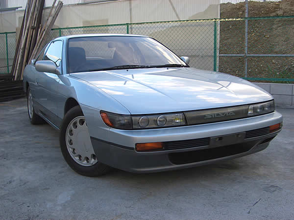 Picture of Nissan Ps13 silvia (K's model), Good Design Award 1988. Copy from en.wikipedia